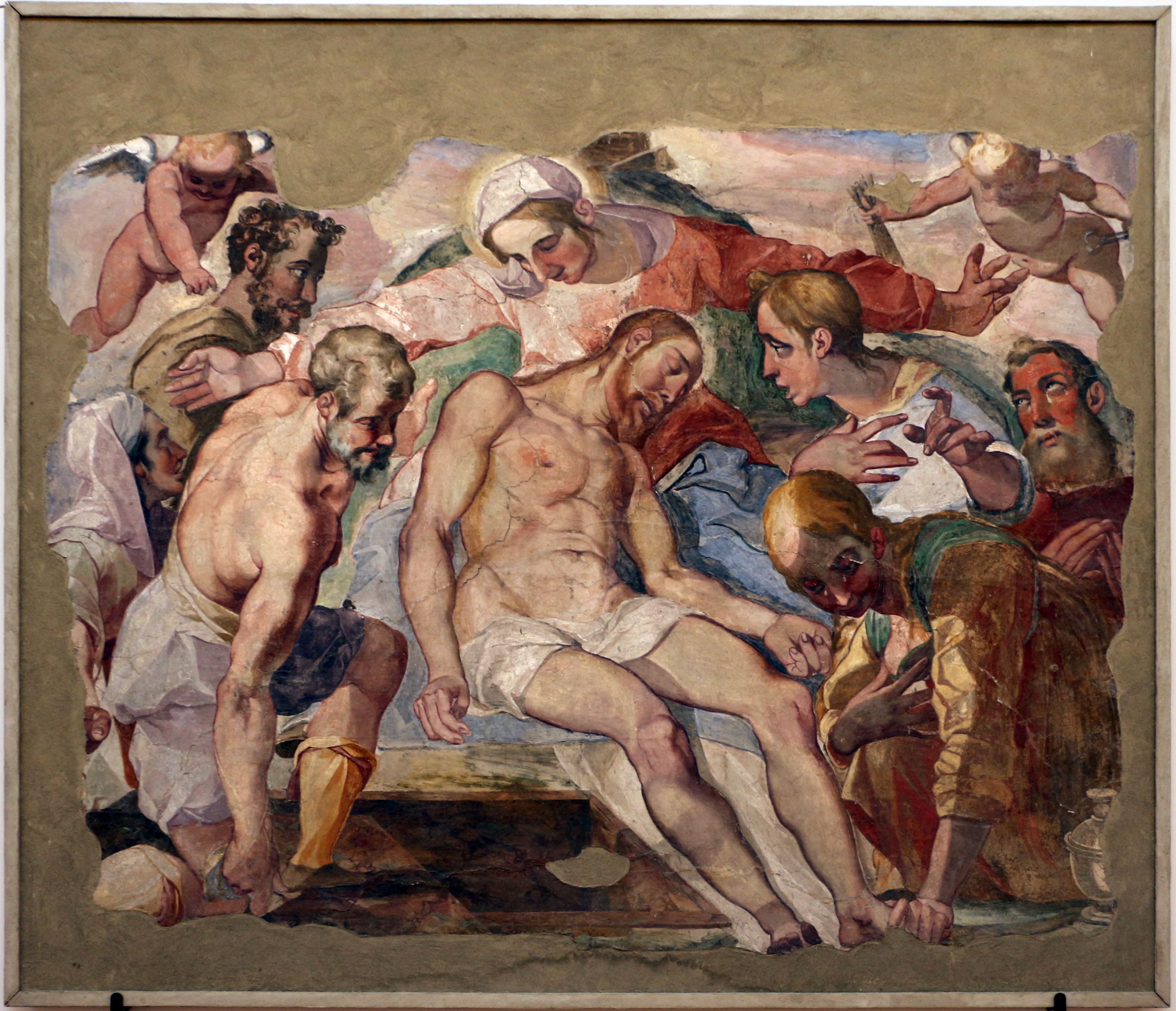 The Deposition